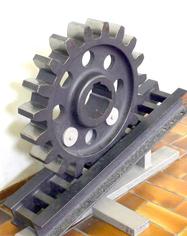 The Riggenback Rack Railway System.